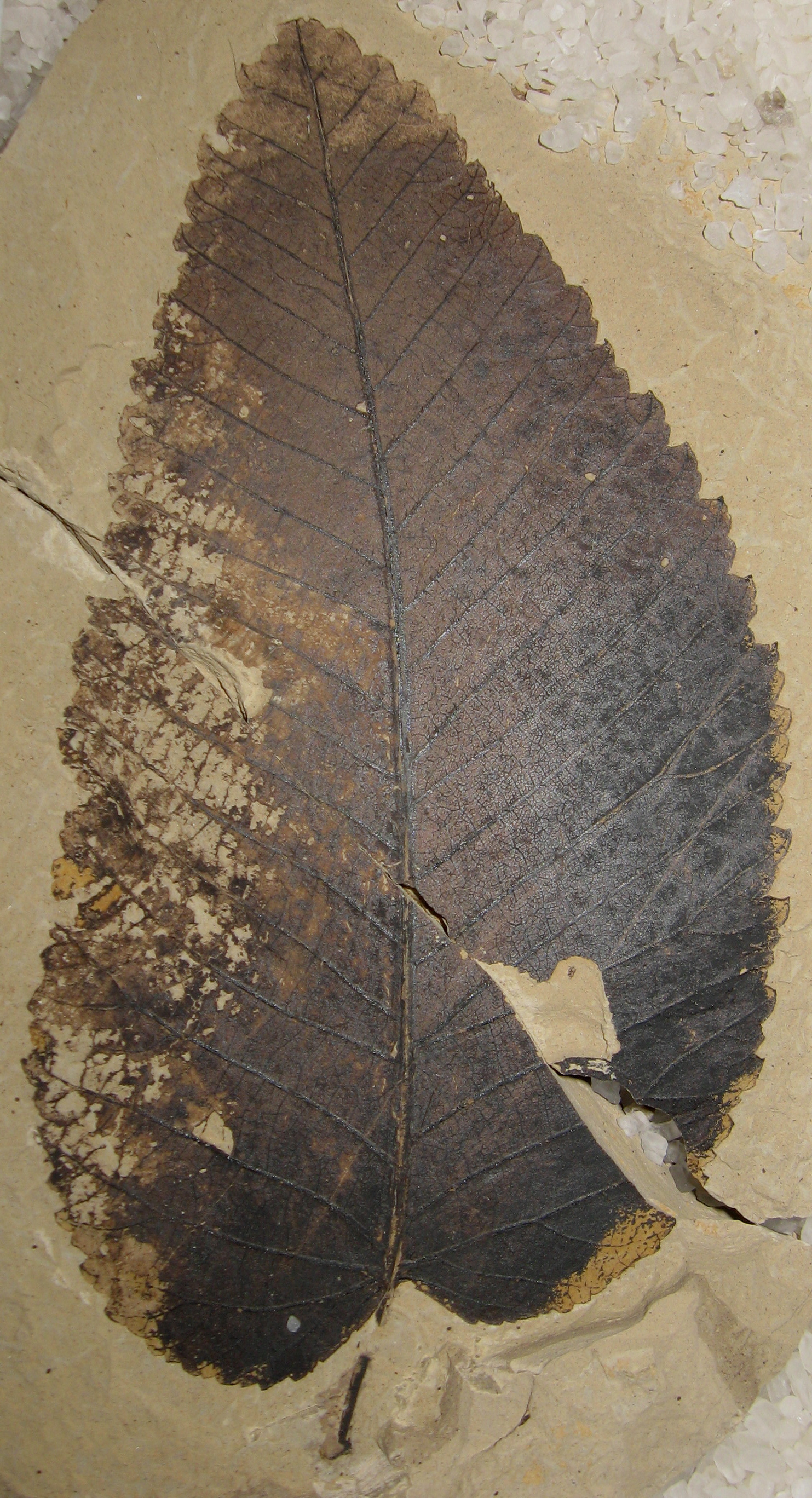 A single leaf, ~14.5cm tall, from the extinct Ulmus chuchuanus. 49 million years old, Klondike Mountain Formation, Republic, Washington. Stonerose Interpretive Center Collections# SR 07-50-13